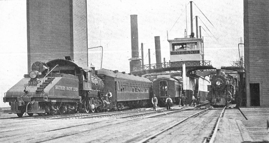 Southern Pacific Railroad train on the ferry Solano at the Port Costa terminal. The train is identified as the Sunset Limited (which did not run via Port Costa) in the book; it may be the Sunset Express or the Overland Limited, or another train.